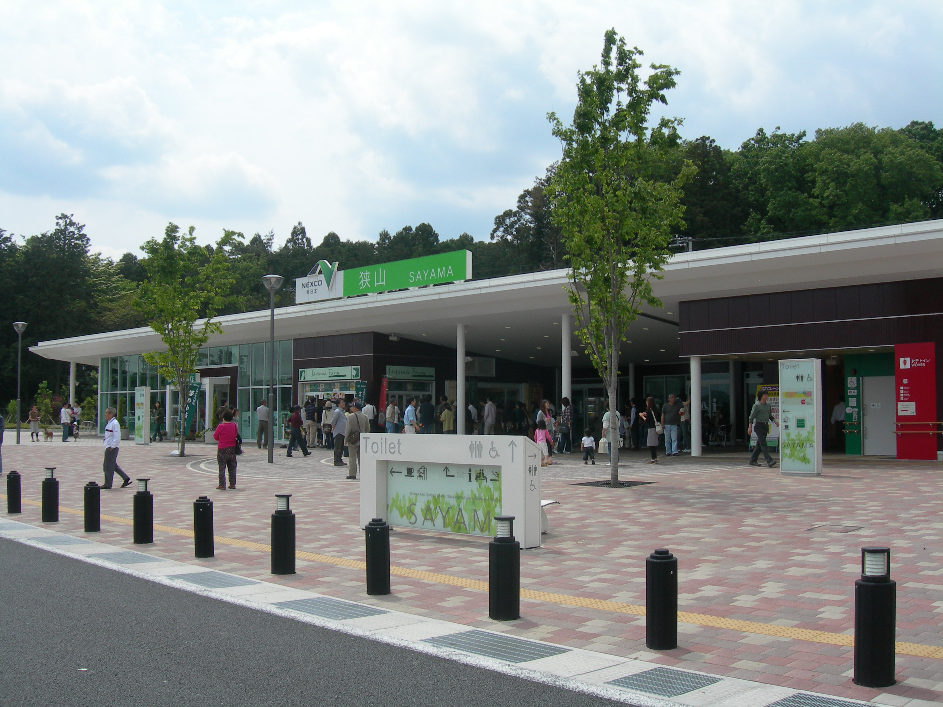 Sayama Parking Area on the Ken-O Expressway eastbound line